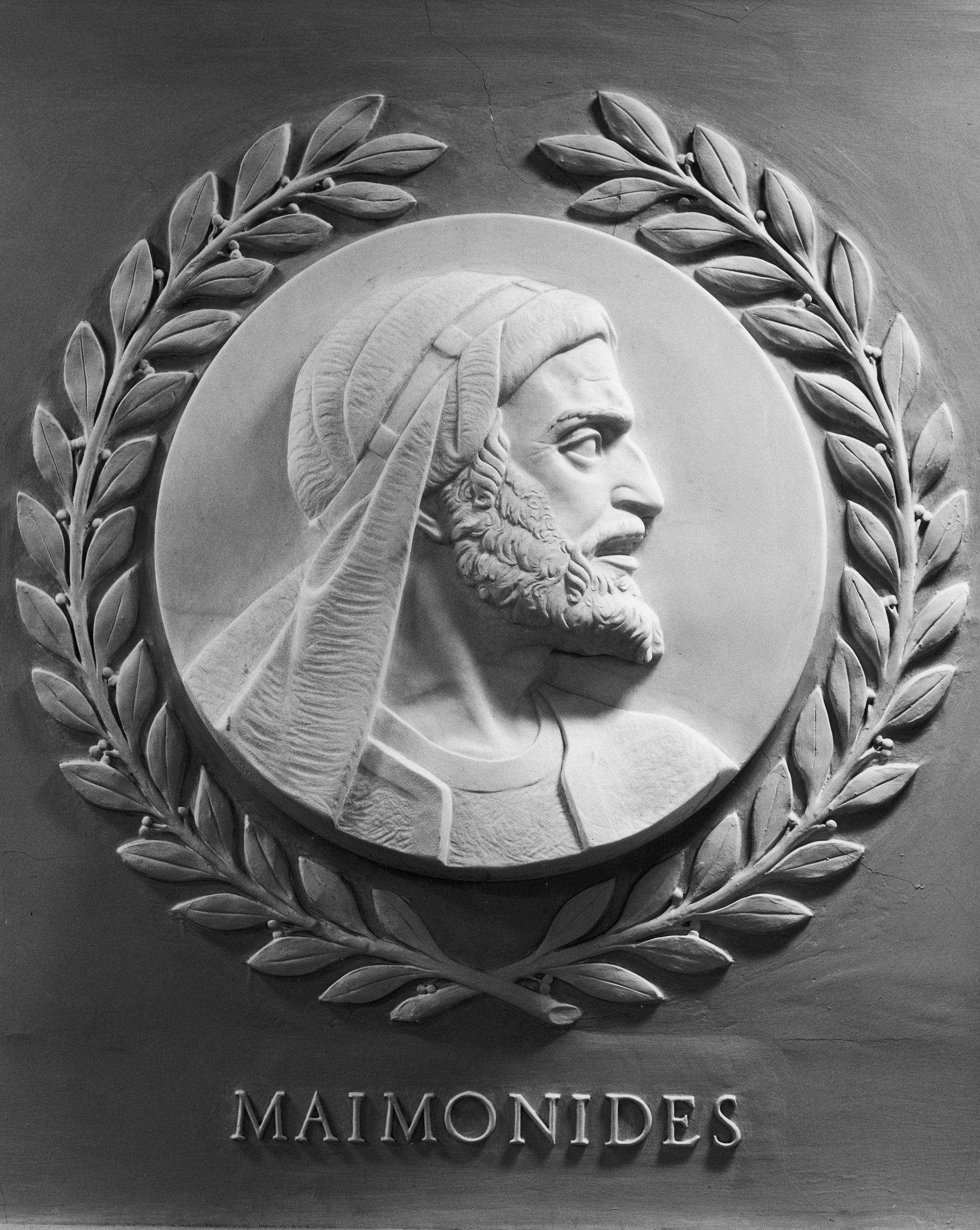 Jewish philosopher of Cordova, Spain; compiled a systematic exposition of the whole of Jewish law as contained in the Pentateuch and in Talmudic literature. Brenda Putnam Marble, 28" dia. 1950 House of Representatives Chamber This official Architect of the Capitol photograph is being made available for educational, scholarly, news or personal purposes (not advertising or any other commercial use). When any of these images is used the photographic credit line should read “Architect of the Capitol.” These images may not be used in any way that would imply endorsement by the Architect of the Capitol or the United States Congress of a product, service or point of view. For more information visit